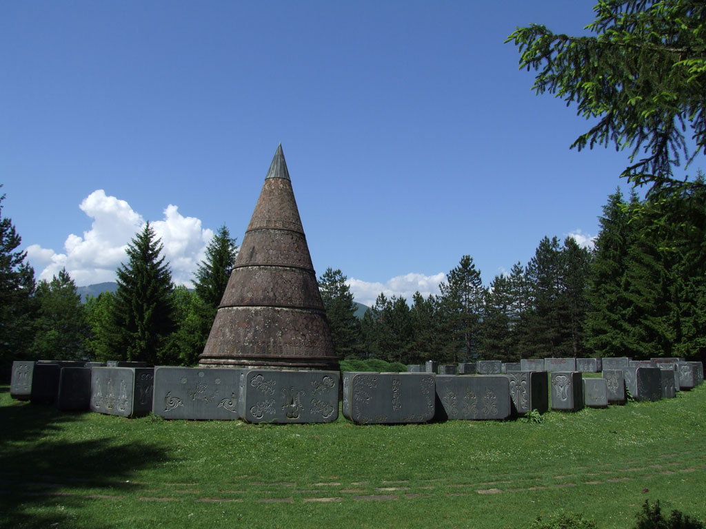 WW2 monument